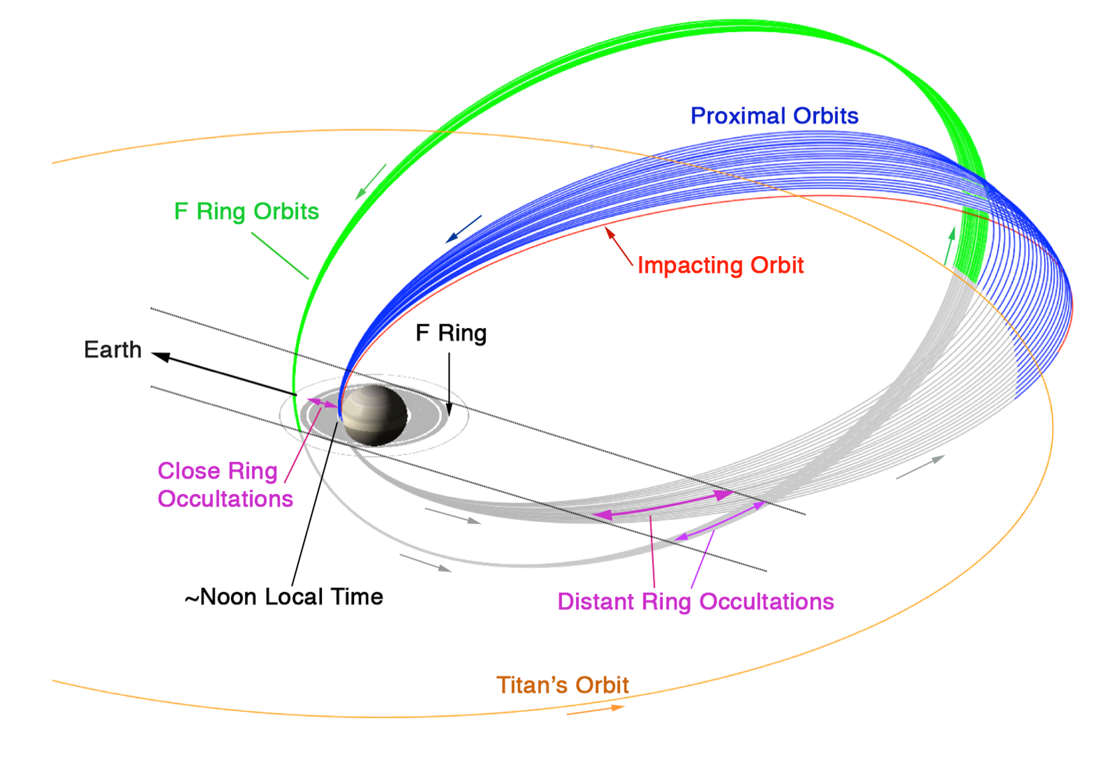 Picture of orbits of Cassini at the end of its mission